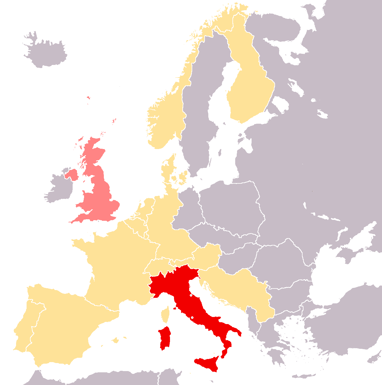 Map of Eurovision 1964